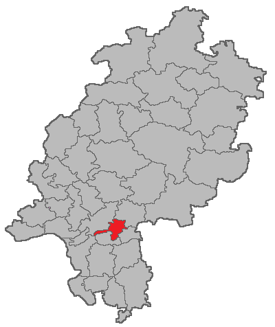 Map of the district court Offenbach am Main in Hesse